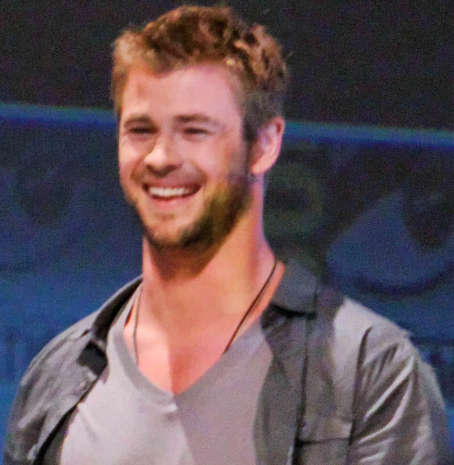 Chris Hemsworth at the 2010 San Deigo Comic-Con International.